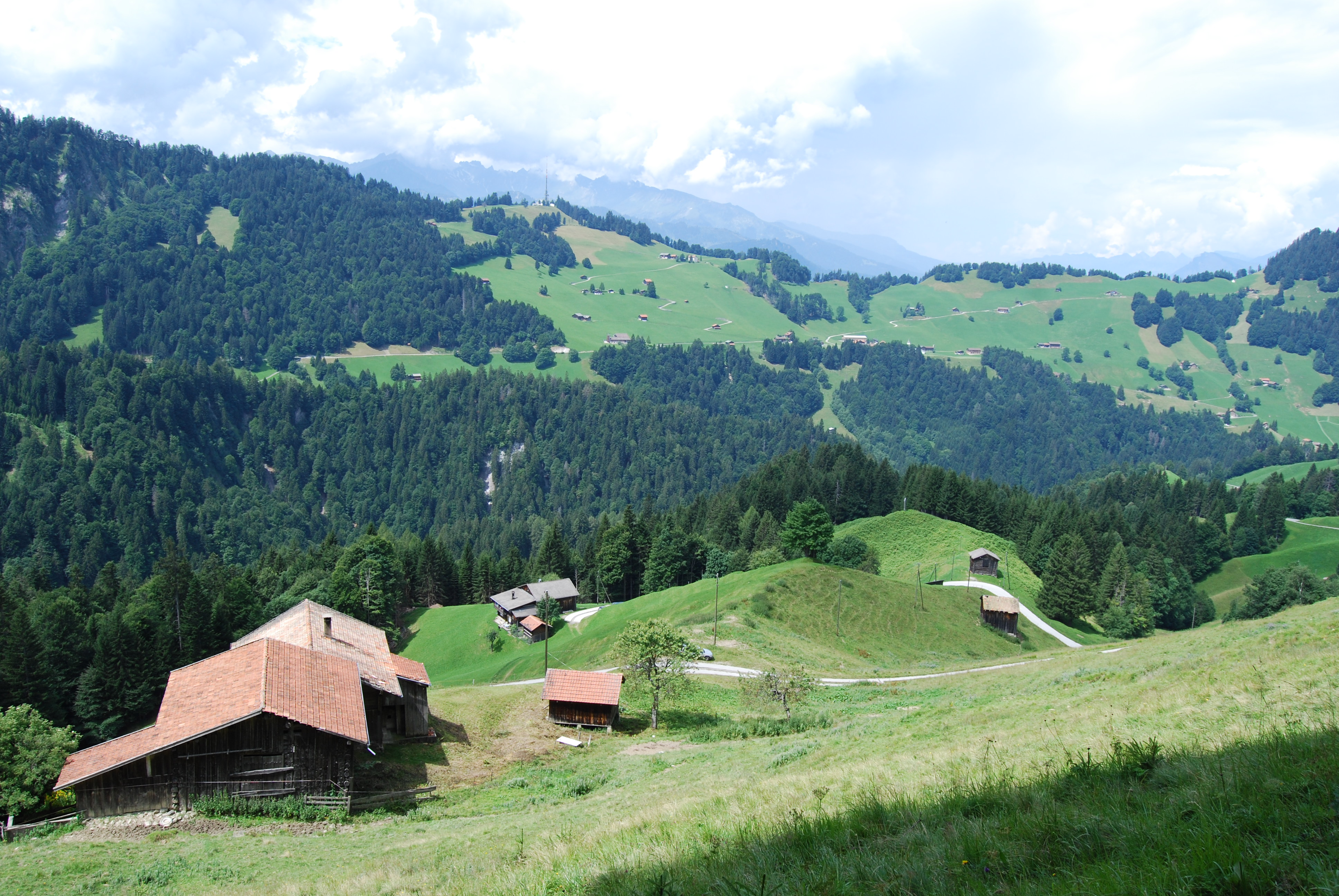 View from Brand (Sigg) to the village of Valzeina.